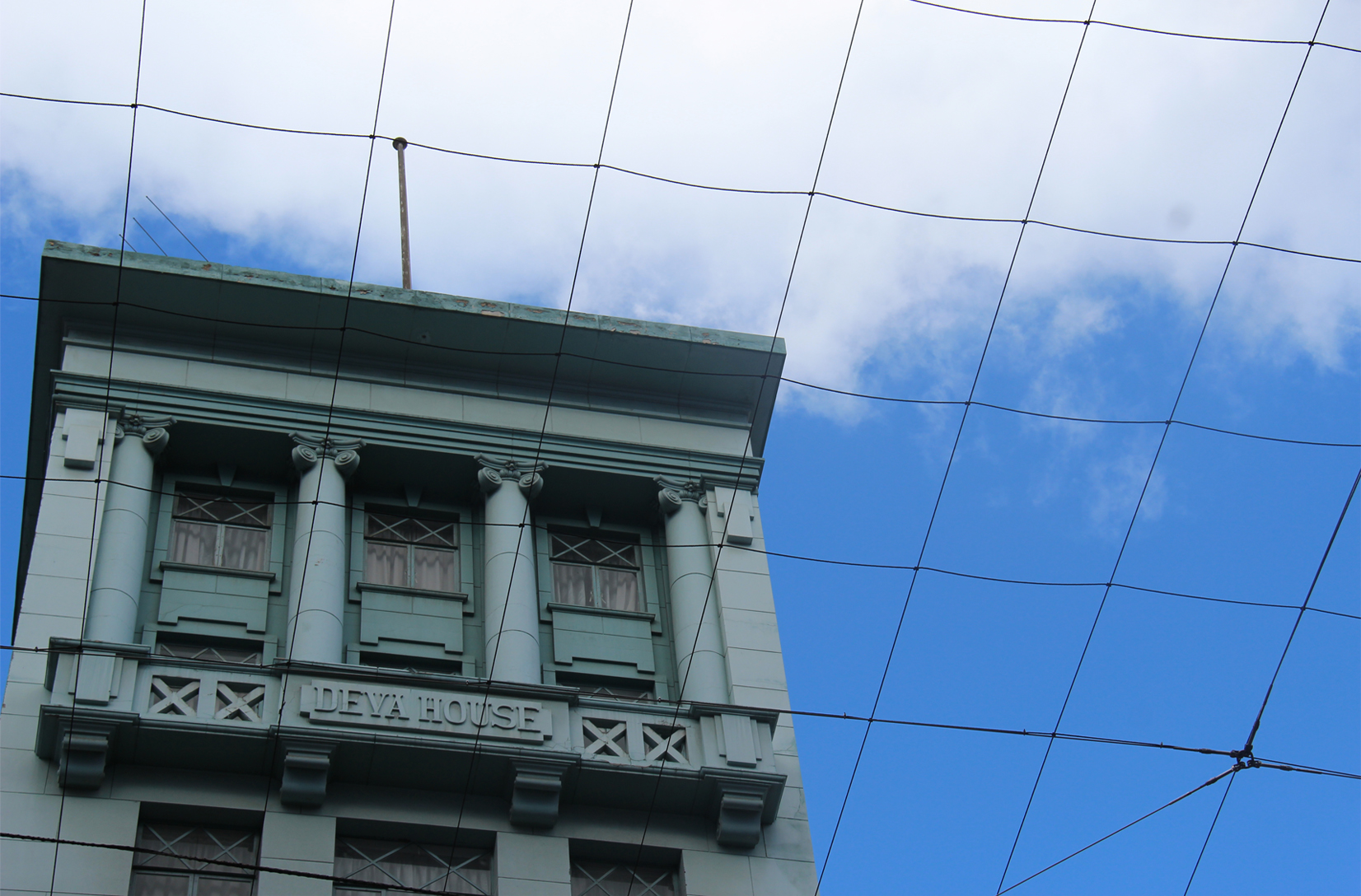 Deva House, Balustrade Detail.